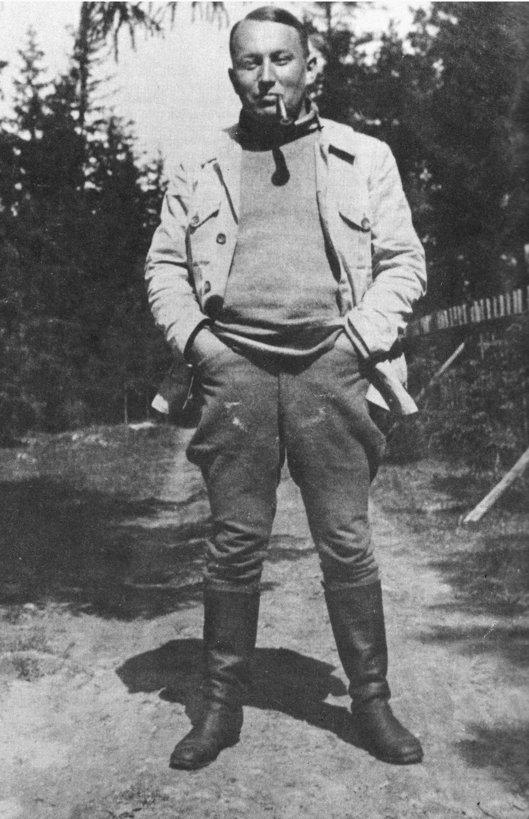 Photograph of the Finnish composer Aarre Merikanto (1893–1958).